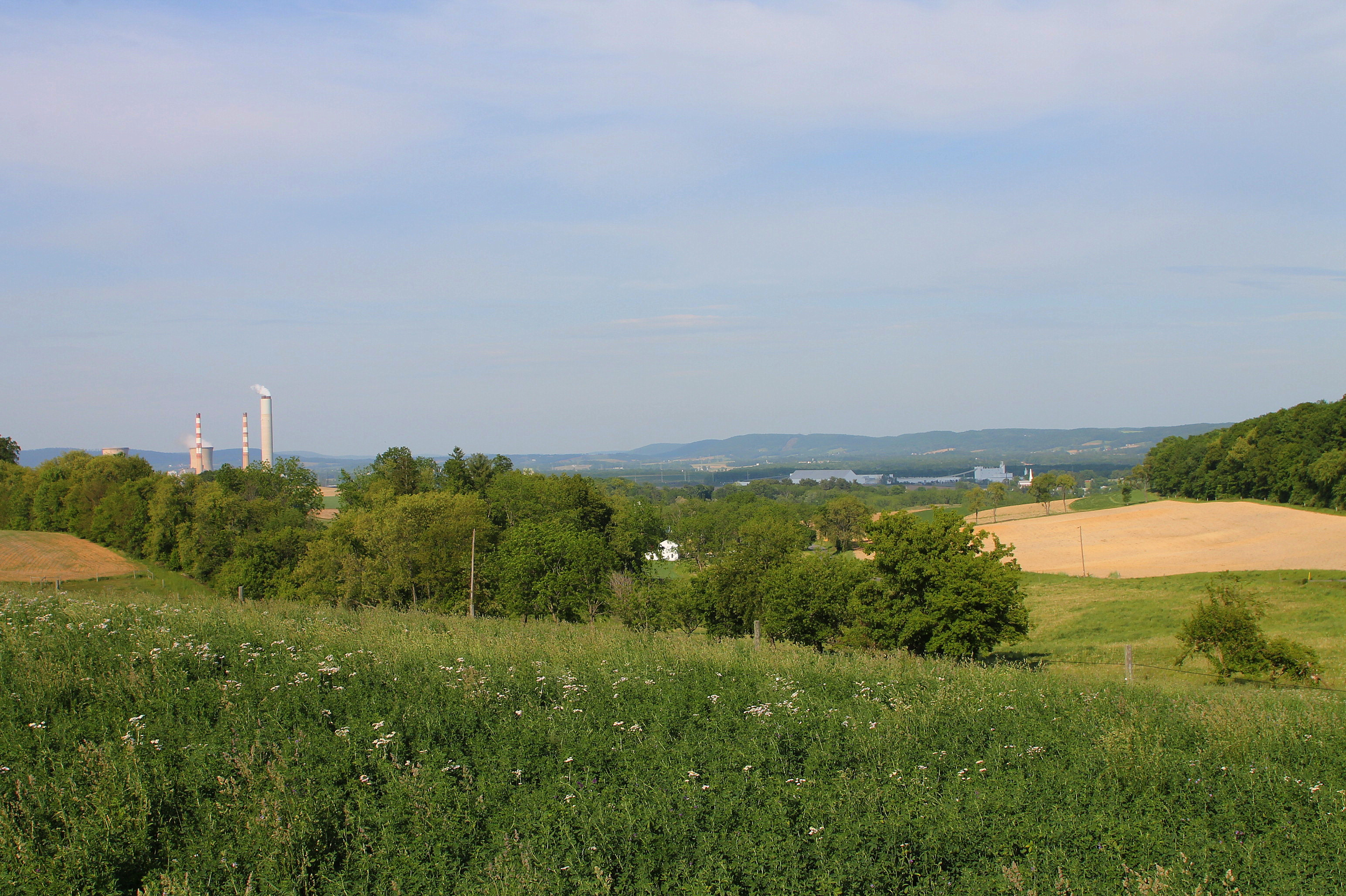 View of northern Montour County, Pennsylvania, including the Montour County power plant. Taken from Bush Road in Limestone Township.